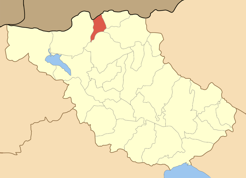 Locator map of Promahonas township in Serres perfecture in Greece.